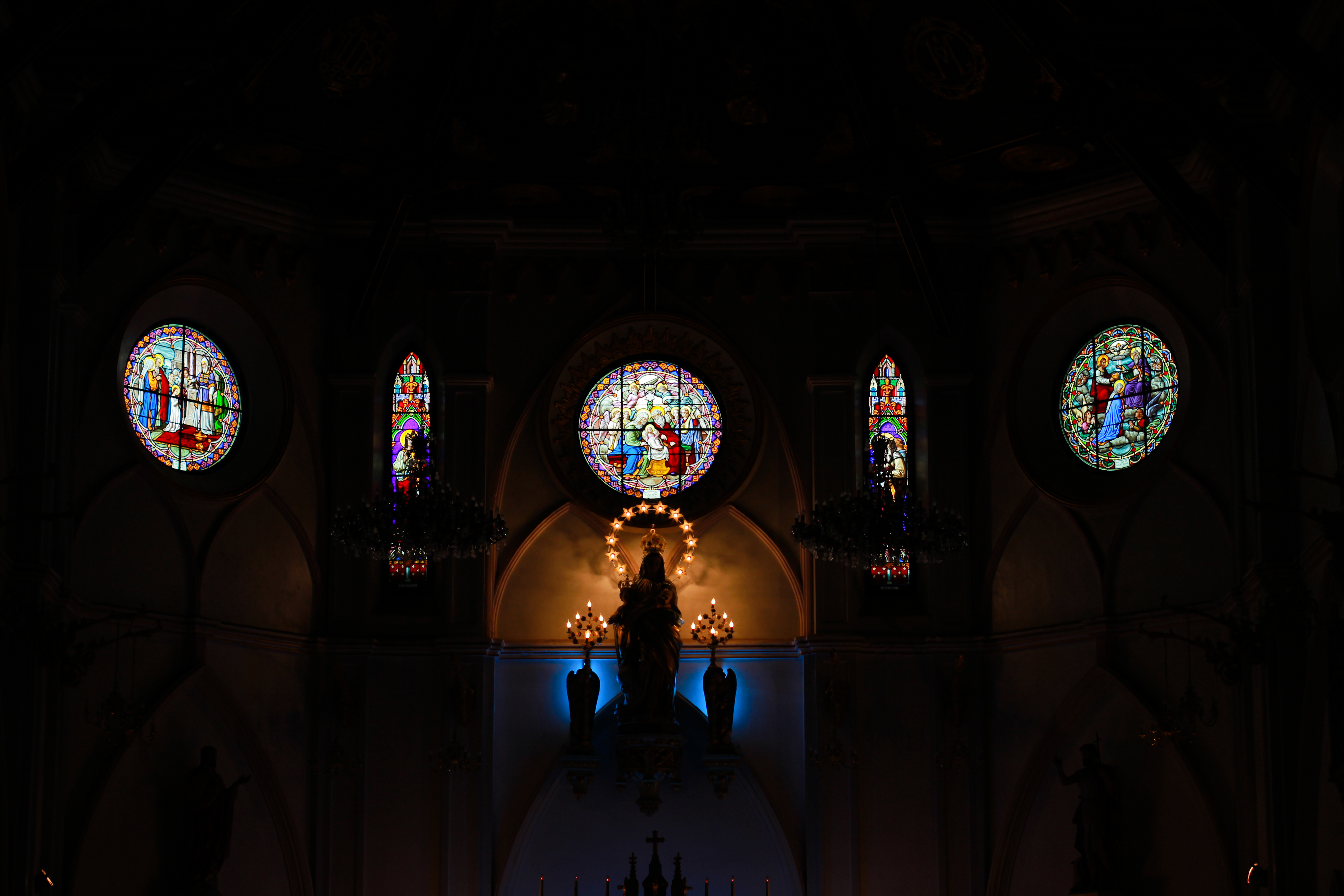 Nativity of Our Lady Cathedral, Bang Nok Khwaek, Bang Khonthi, Samut Songkhram